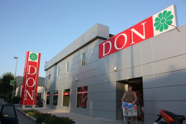 Don Super Market in Ohrid